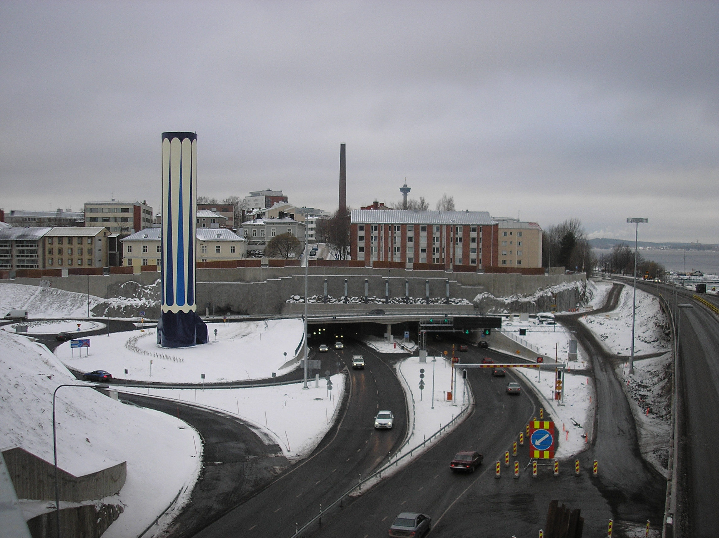 The eastern entrance of the Rantatunneli traffic tunnel, diving under the centre of Tampere, on the day of its opening for traffic 15 November 2016.